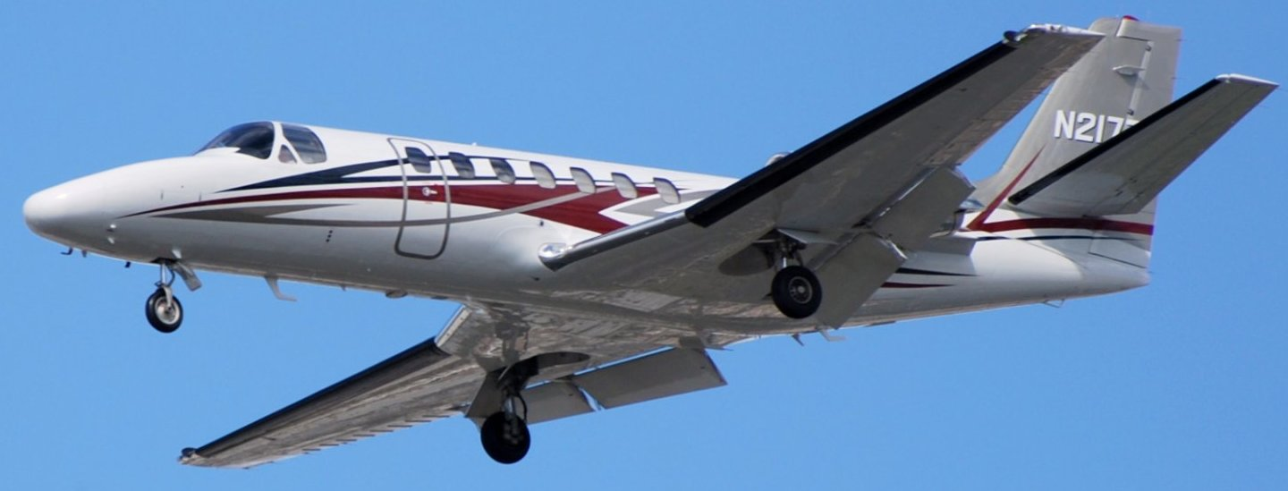 Las Vegas - McCarran International (LAS / KLAS) USA - Nevada, October 1, 2010 Photo: TDelCoro